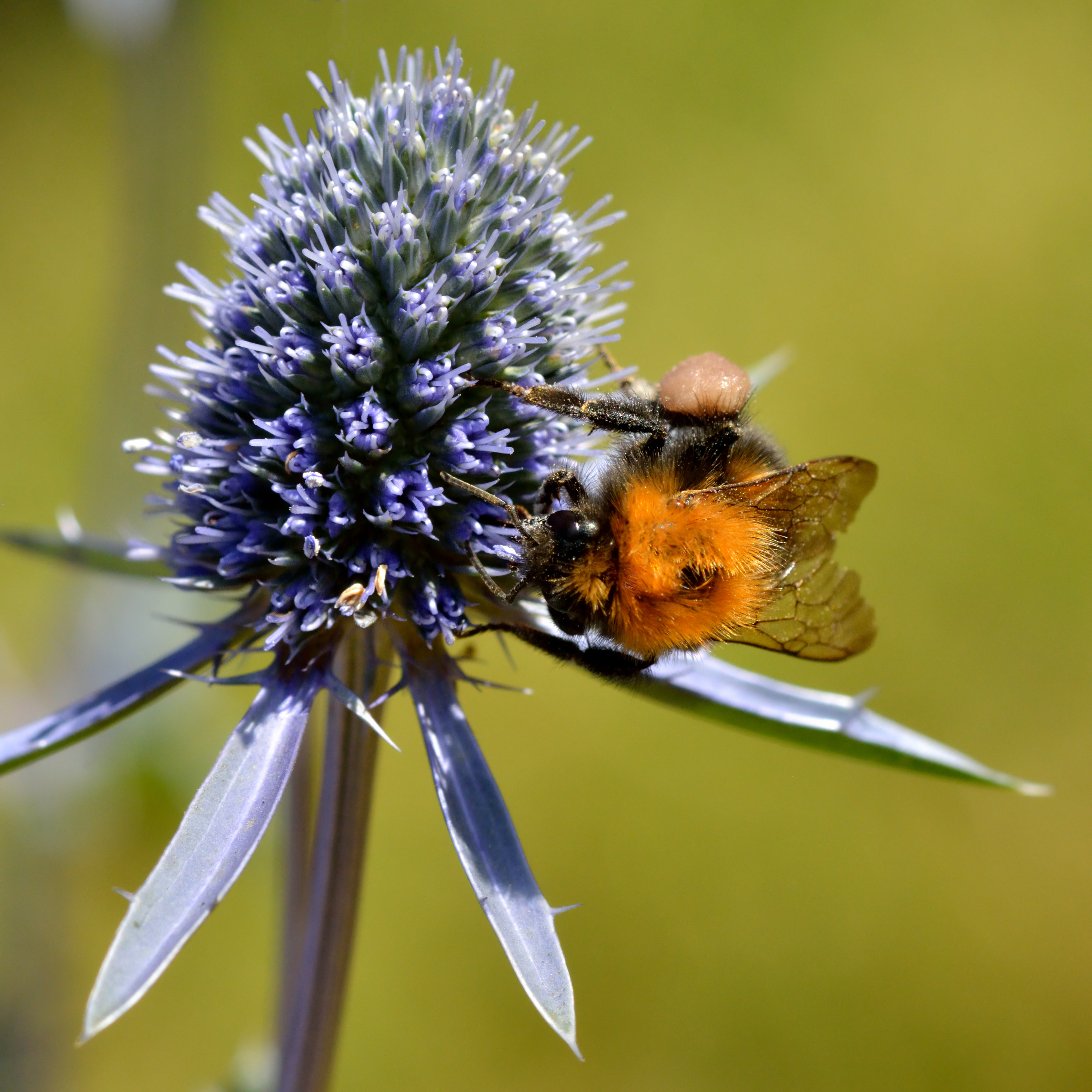 Tree bumblebee (Bombus hypnorum) on the cultivated flat sea holly (Eryngium alpinum). Keila, Northwestern Estonia.